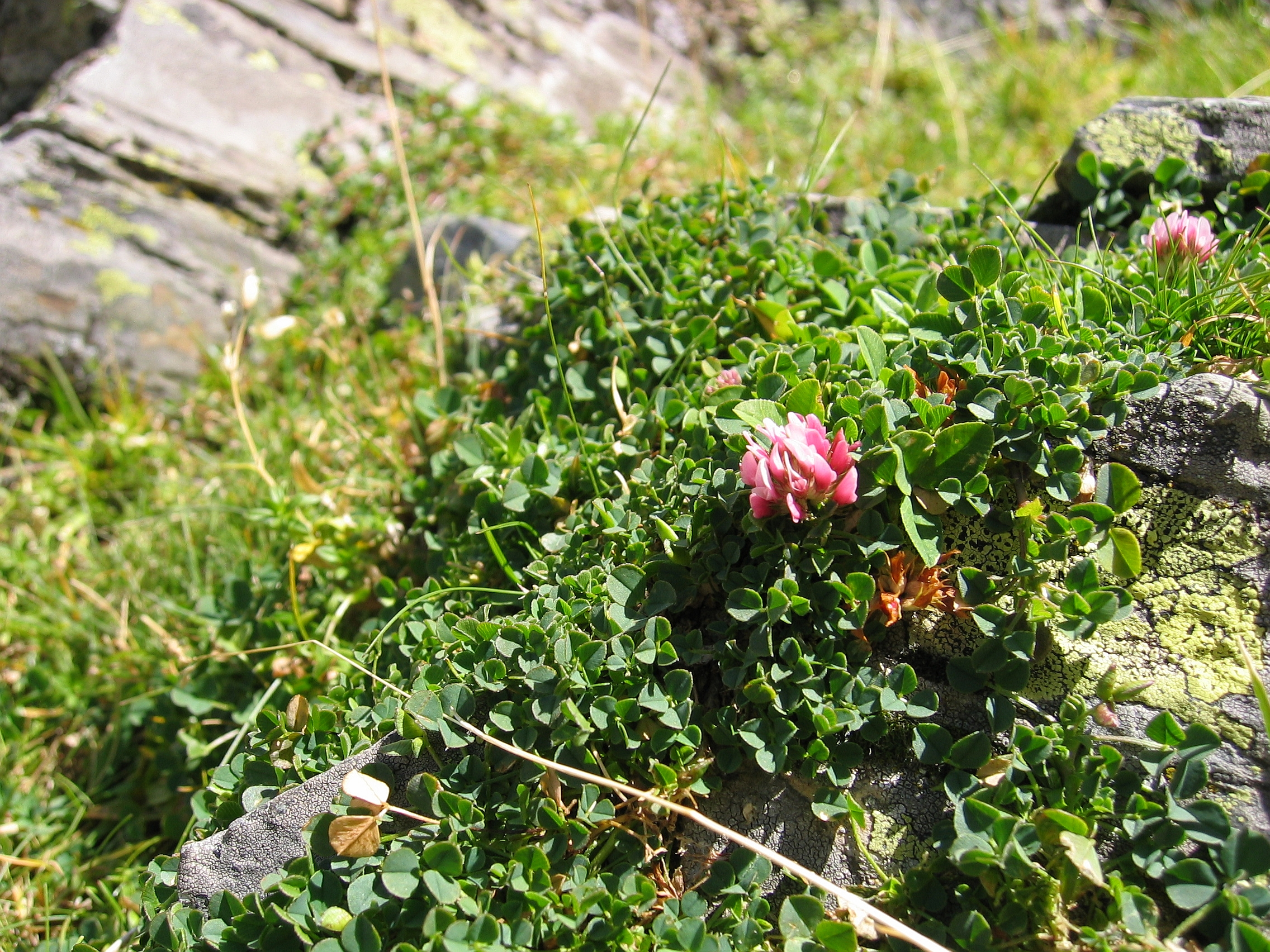 Trifolium_thalii Near Soques, Pyrenees, France